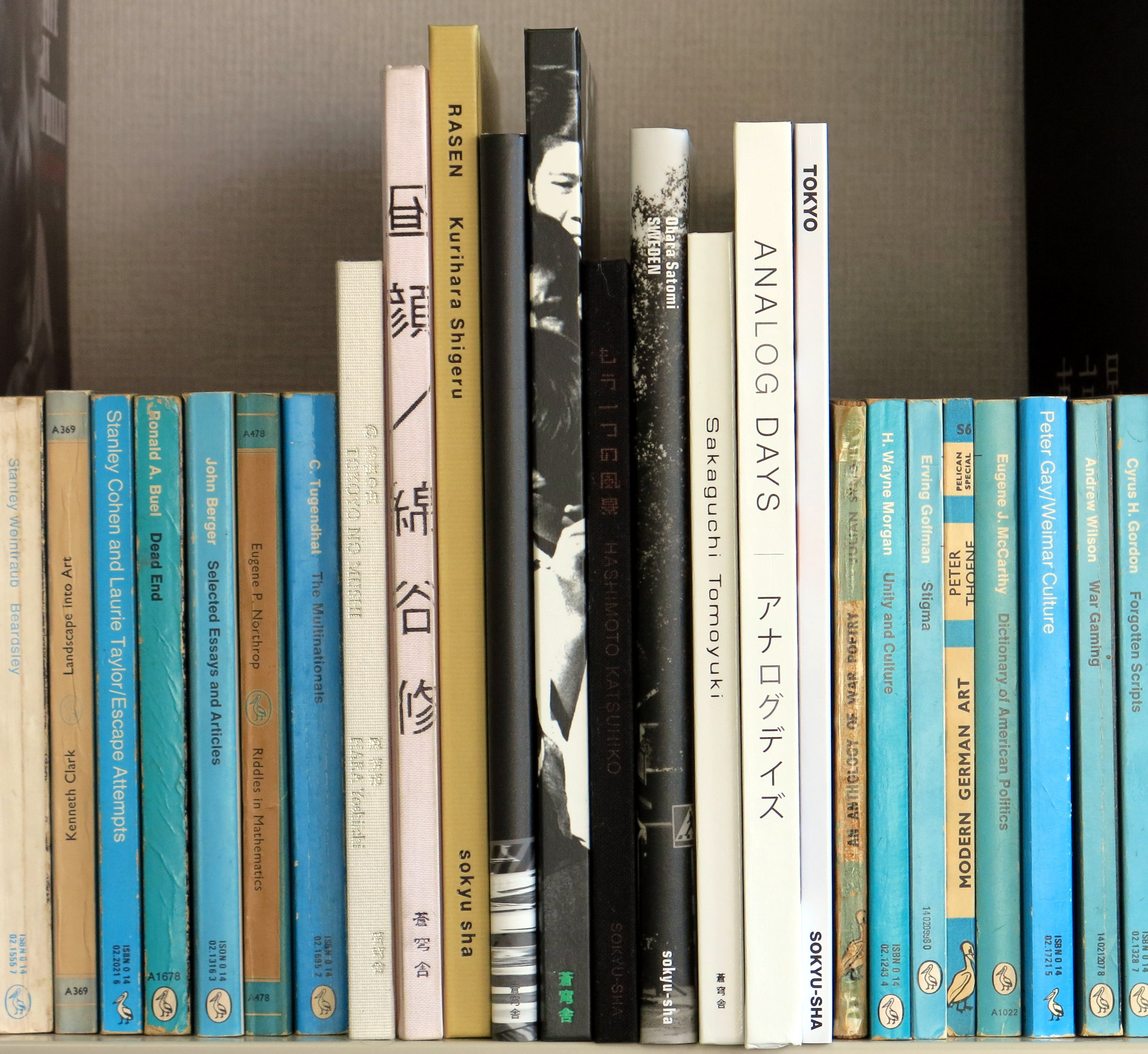 Some photobooks published by Sokyu-sha (蒼穹舎, Sōkyūsha); by Hara Yoshiichi (原芳市), Wataya Osamu (綿谷修), Kurihara Shigeru (栗原滋), Nagano Shigeichi (長野重一), Hashimoto Katsuhiko (橋本勝彦), Obara Satomi (小原里美), Sakaguchi Tomoyuki (坂口トモユキ), John Harding, and Ōtsuka Megumi (大塚めぐみ) (among irrelevant Pelicans)